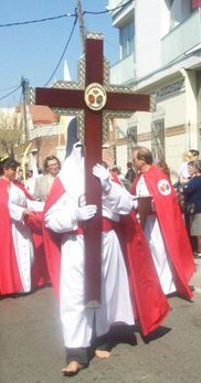 Cruz de Guía, se puede observar como el nazareno que la lleva va descalzo.